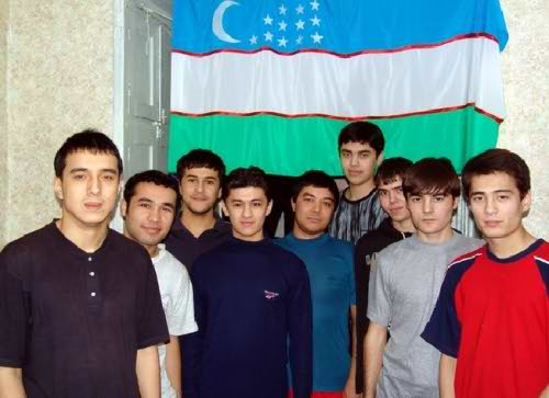 Students from Uzbekistan - The picture was taken by an unknown photographer and is not copyrighted. Anvar Allaev (first from left) has approved this upload